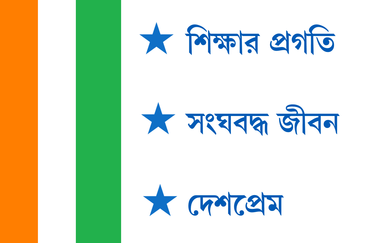 This is the Flag officially used by the All India Trinamool Student Congress, popularly known by its Bengali name Trinamool Chhatra Parishad or TMCP.